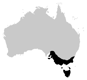 Native distribution of the Brown tree frog, Litoria ewingii